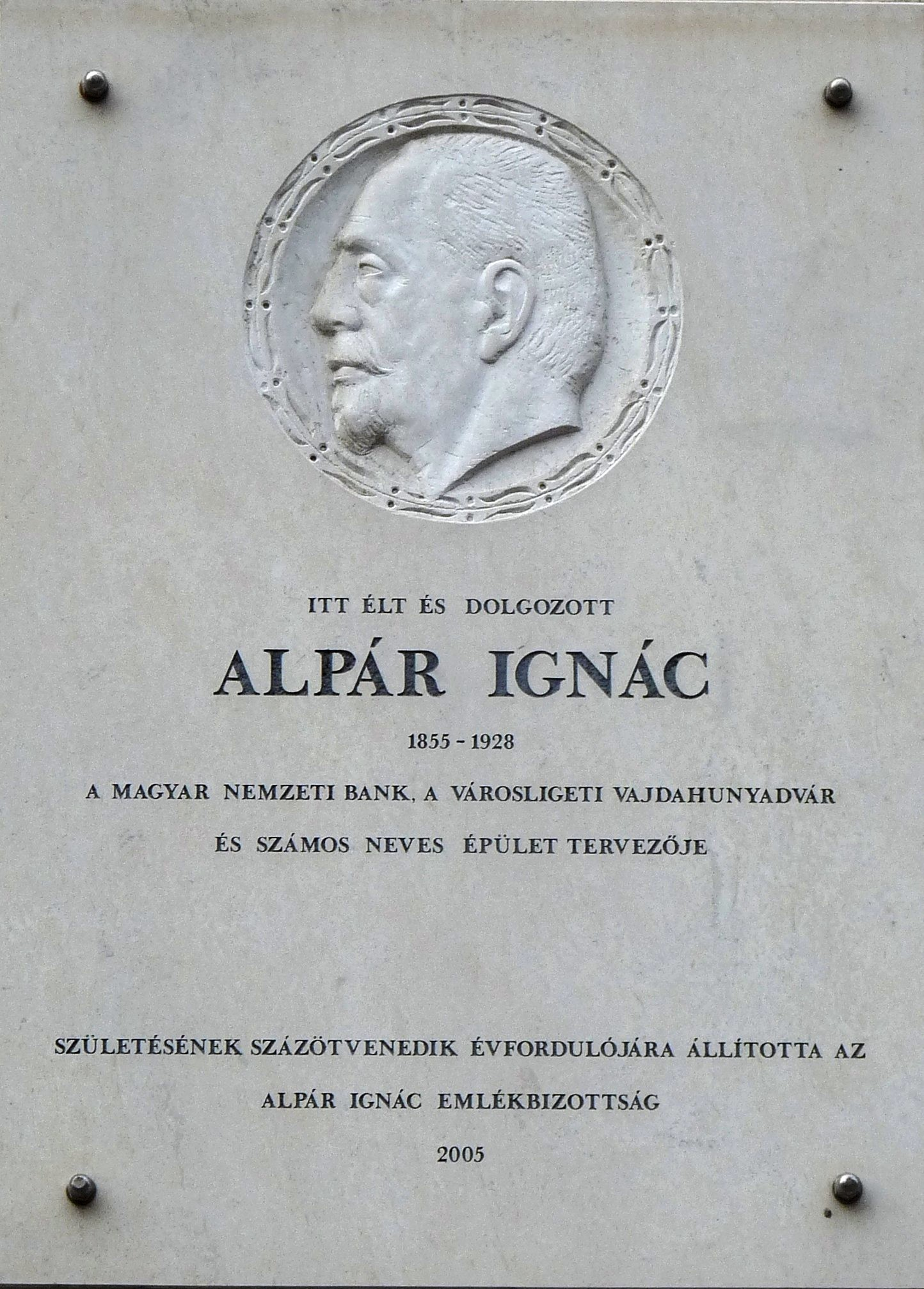 Commemorative plaque to Mr. Ignác Alpár (1855–1928) Hungarian architect. It was affixed on the wall of his former home on January 17, 2005. Its author is Mr. Gábor Rosch. (Budapest, District VII, Almássy Square Nr 15).